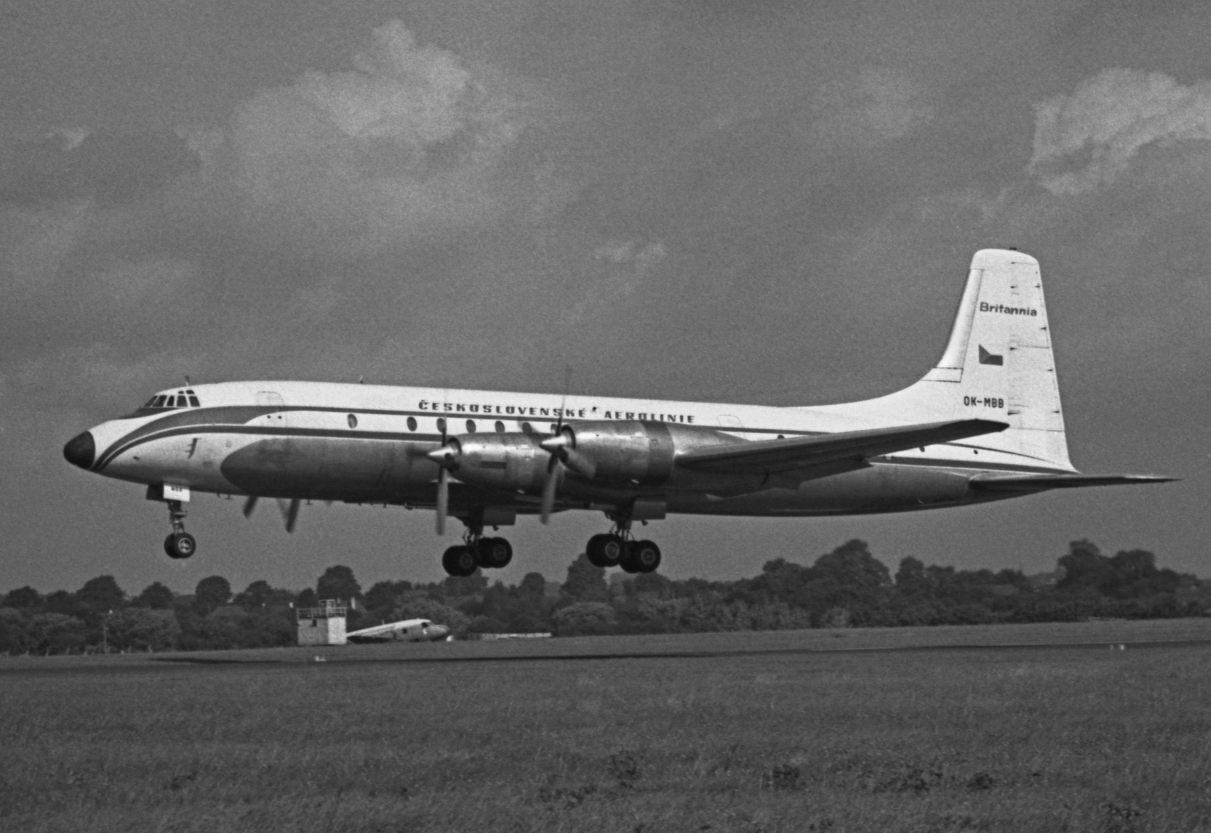 Delivered new to Cubana in Aug 1959 as CU-P671, this Britannia was promptly re-registered CU-T671. In Nov 1963 it was leased to Ceskoslovenske Aerolinie (CSA) and registered OK-MBB, in which guise it arrived at Southend at the very end of Aug 1966 for a check by Aviation Traders and I photographed it leaving for Prague on 2 Sep. It returned to Cubana at the end of 1969, was restored to CU-T671 and was eventually withdrawn from use at Havana and stored there. Photo: Richard John Goring (Transportraits)